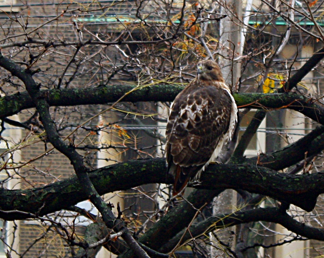 Red-tailed Hawk sighted in the city of Toronto, Canada, in front of the Fields' institute.